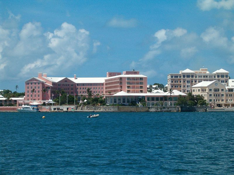 The Princess Hotel in Pembroke, Bermuda on 17 July 2006